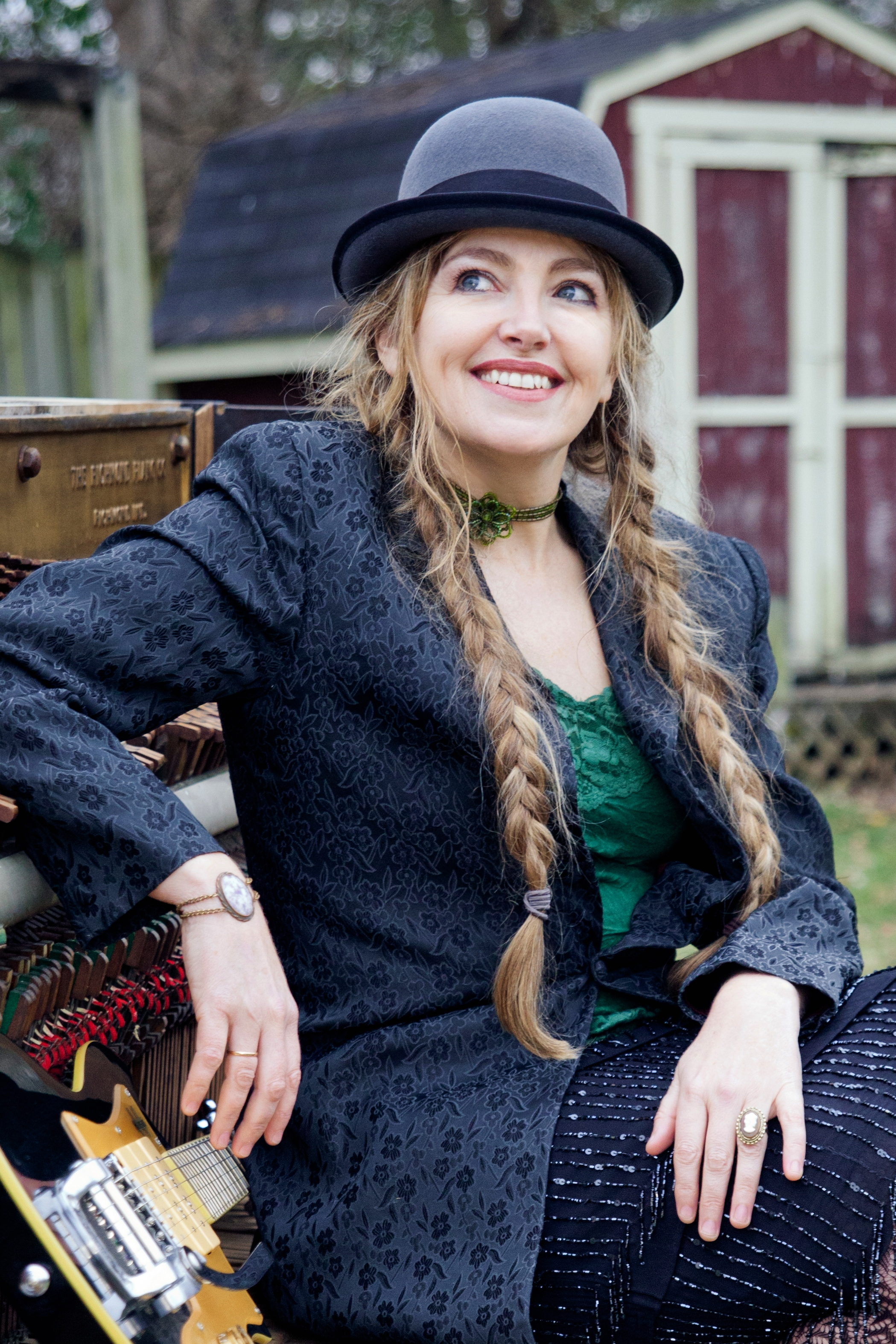 Anne McCue at the release of her album Blue Sky Thinkin' 2015. Photo by Stacie Huckeba.